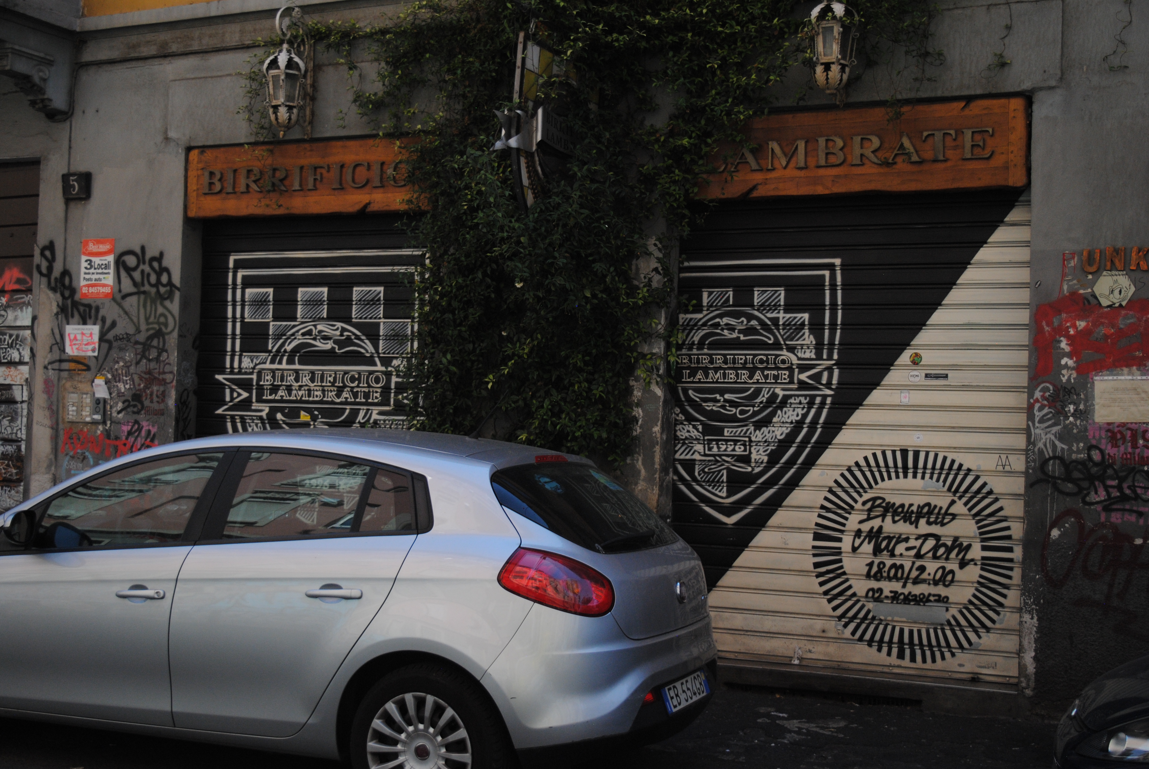 Branch of Birrificio Lambrate on via Adelchi, Milan, Italy, in June 2019